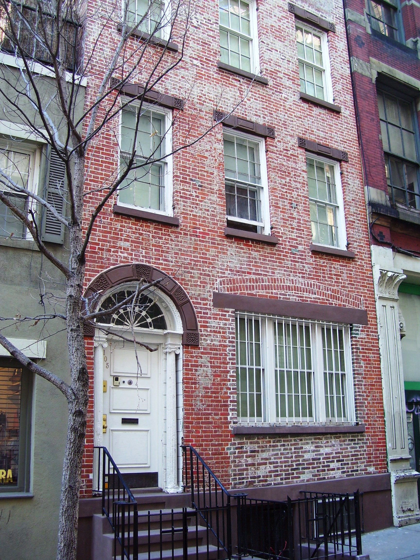 105 Mercer Street, between Spring and Prince Streets in the SoHo neighborhood of Manhattan, New York City, was built in 1819-20 in the Federal style as a dwelling. (Source: NYCLPC SoHo - Cast Iron Historic District Designation Report)